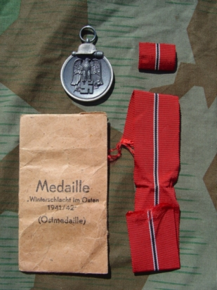 WW2 Russian Front Medal